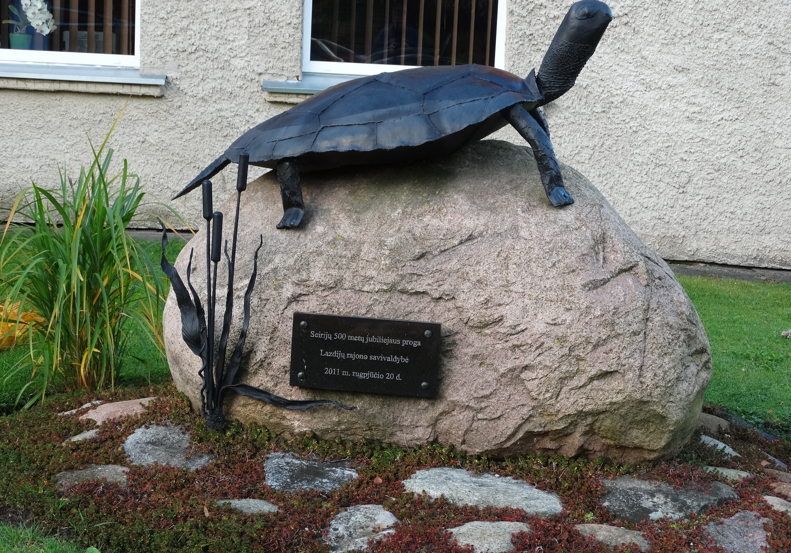 Stone with a a turtle, Seirijai, Lithuania